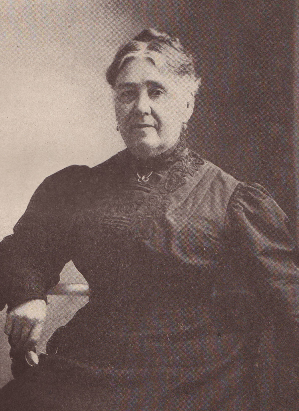 Frontispiece photograph of the author, Narcissa Chisholm Owen.